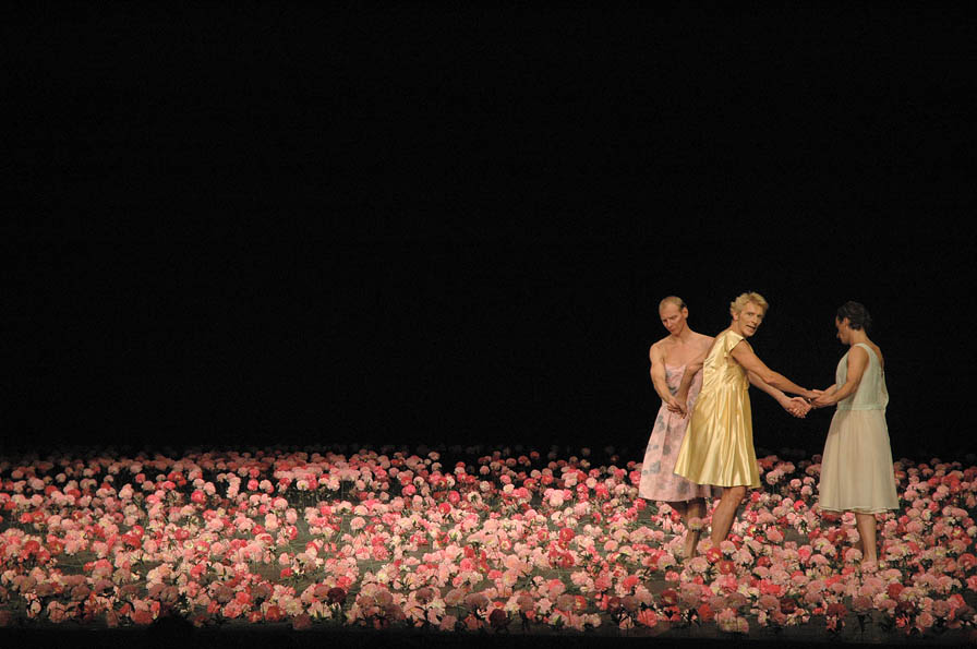 Cravos, by choreographer Pina Bausch.